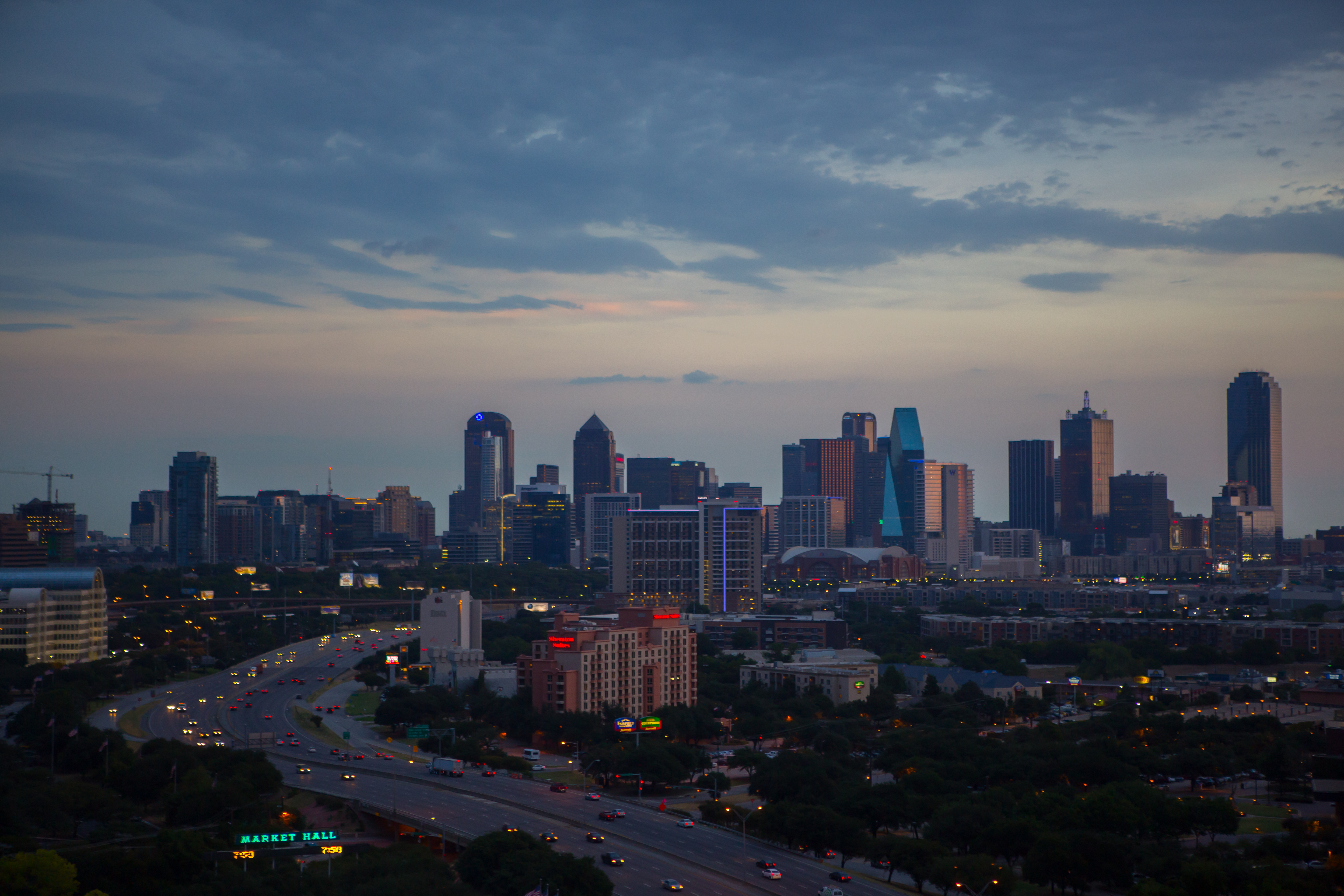 Dallas skyline